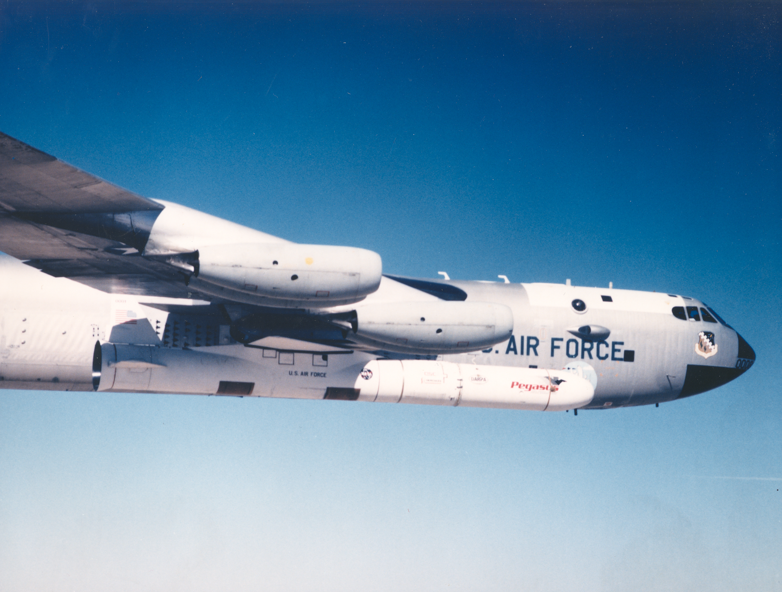 This image shows a Pegasus being carried to altitude by B-52. An air-launched, three stage, all solid-propellant, three-axis stabilized vehicle, the Pegasus can set a 400-1,000 pound payload into low-Earth orbit. For more information about Pegasus, please see Chapter 5 in Roger Launius and Dennis Jenkins' book To Reach the High Frontier published by The University Press of Kentucky in 2002.